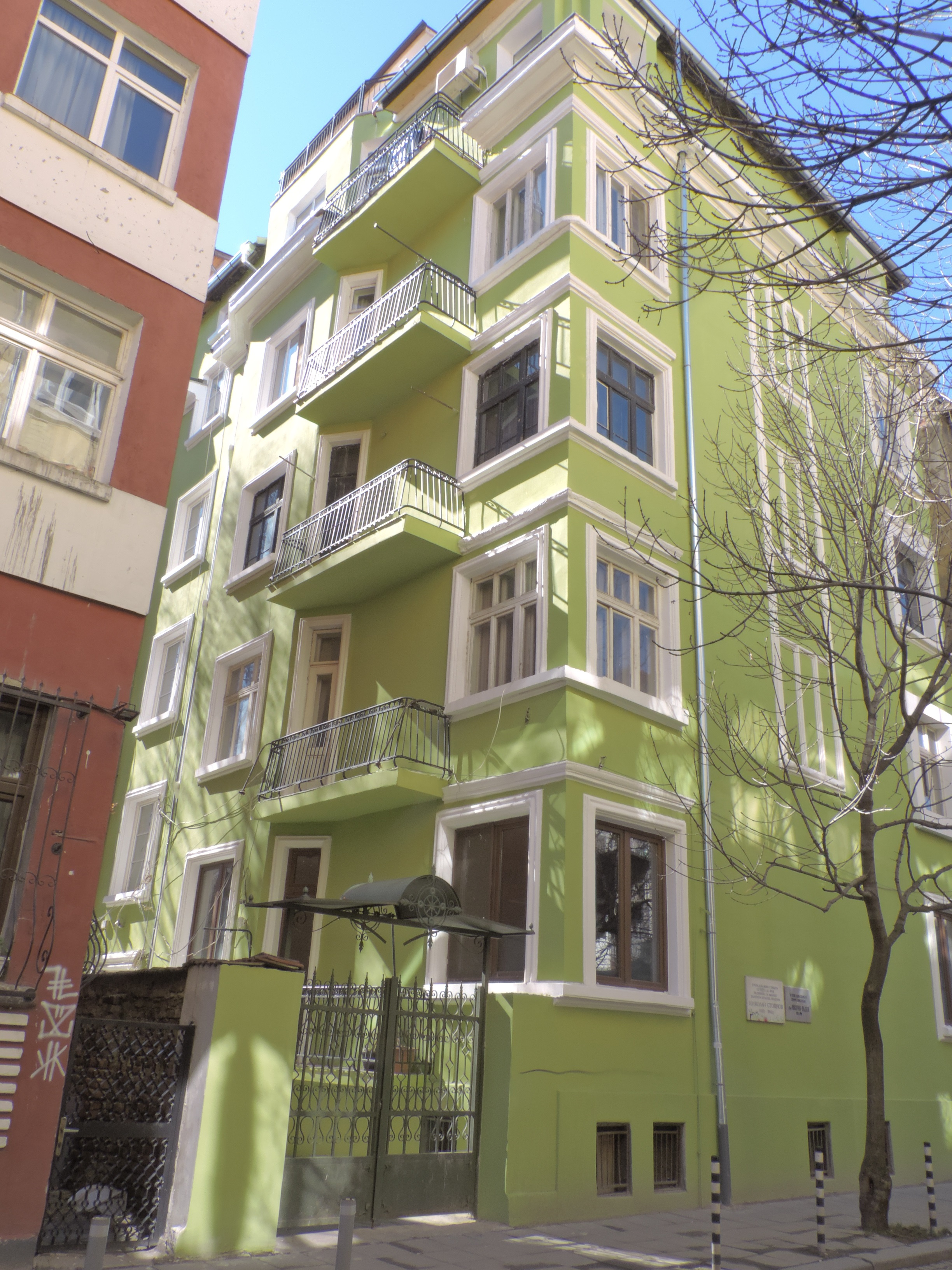 The building at 48 William Gladstone Str., Sofia, home of the botanicist Acad. Nikolai Stojanov and the writer Dr. Milcho Radev.